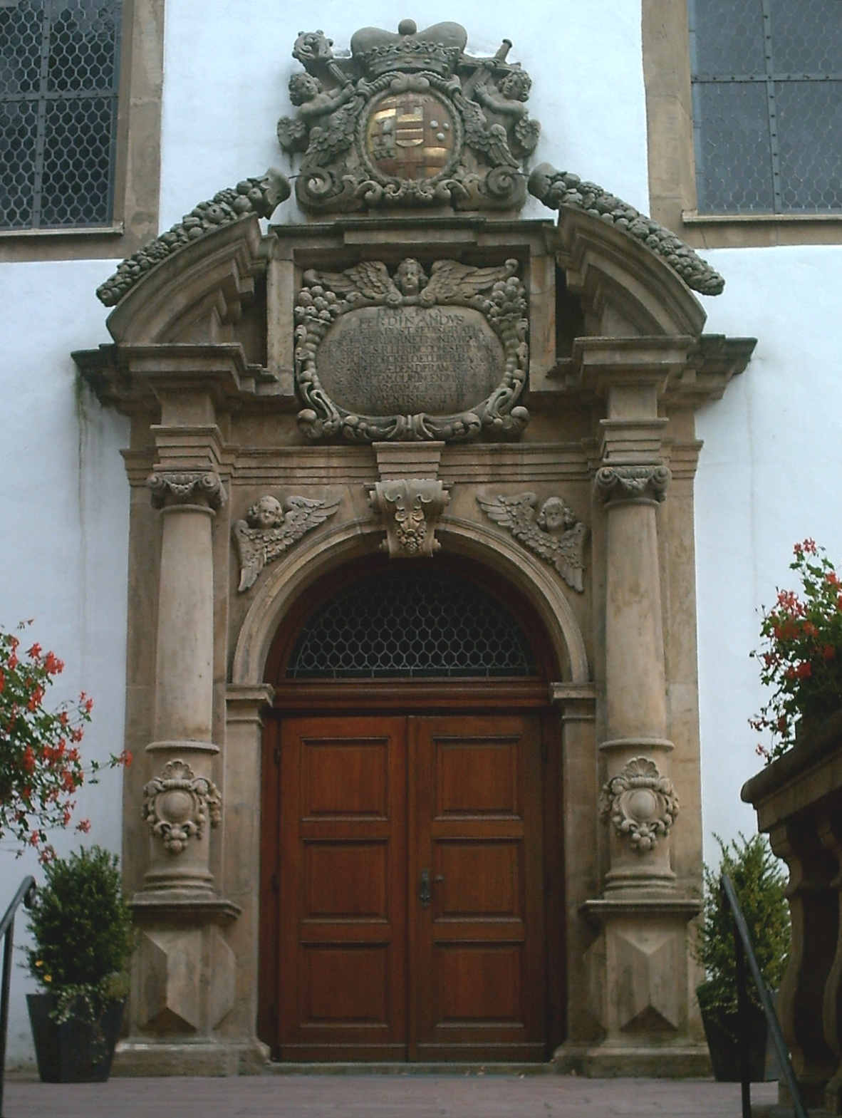 Collegium Liborianum in Paderborn, Germany